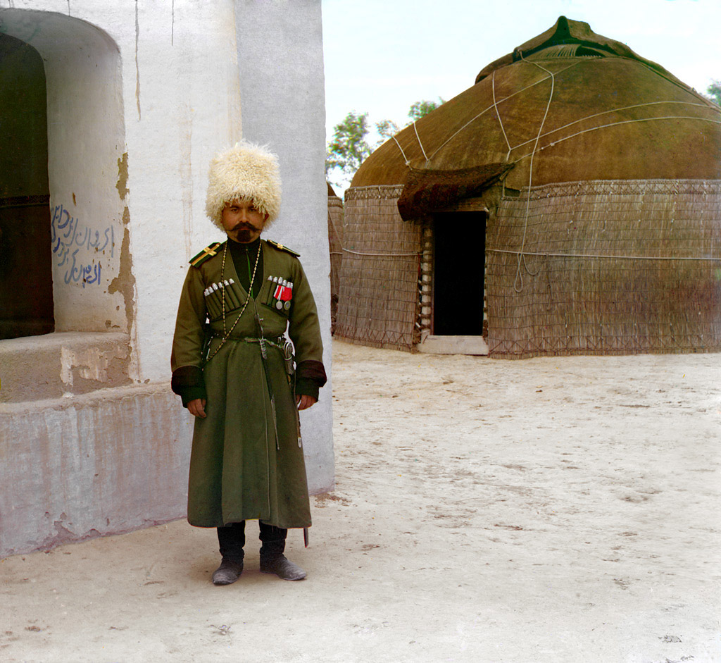 Man in uniform beside building, yurt in background